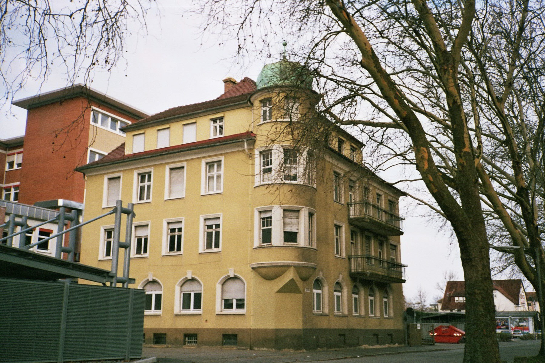 Heilbronn Badstraße Villa Angele erbaut 1925